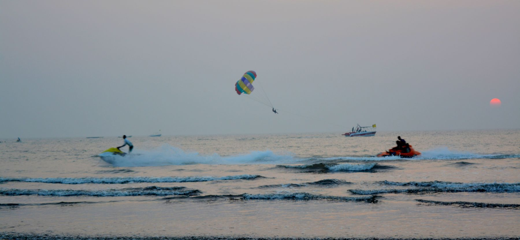 Nagaon Beach - Water Sports